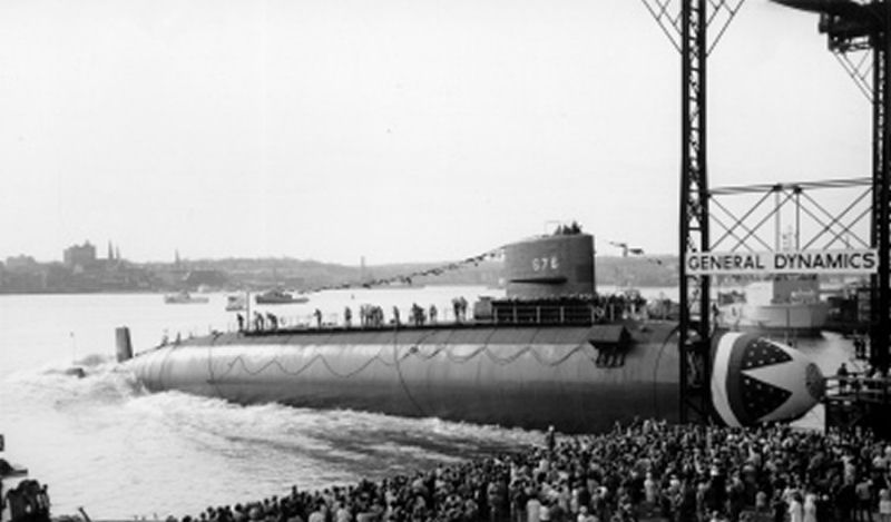 United States Navy attack submarine USS Billfish (SSN-676) being launched at Groton, Connecticut